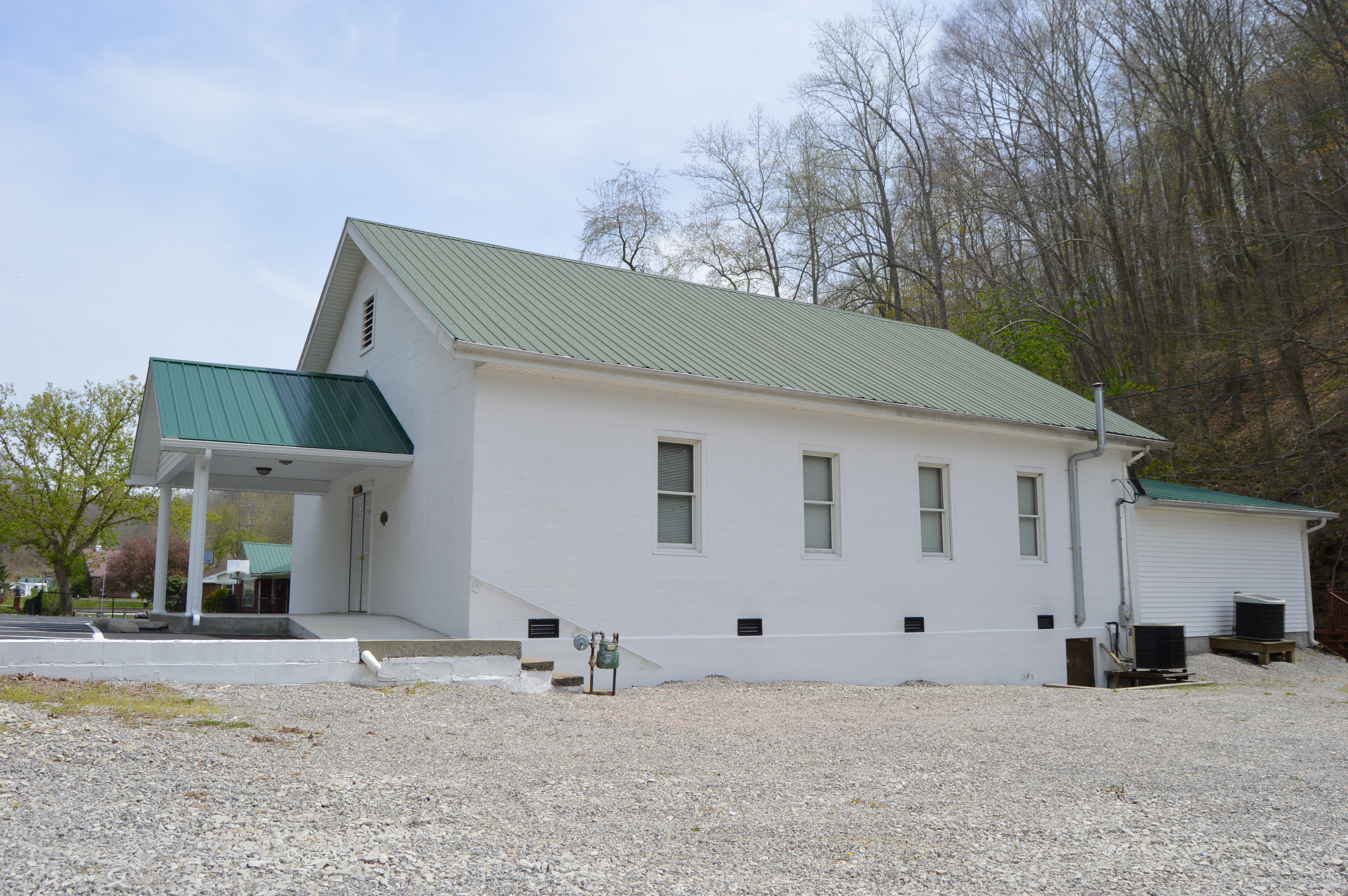 Western side and front of the Buffalo United Baptist Church, located on the southern side of Kentucky Route 40 at Meally in Johnson County, Kentucky, United States.